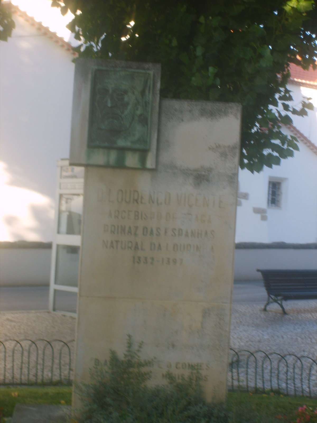 D. Lourenço Vicente in Lourinhã